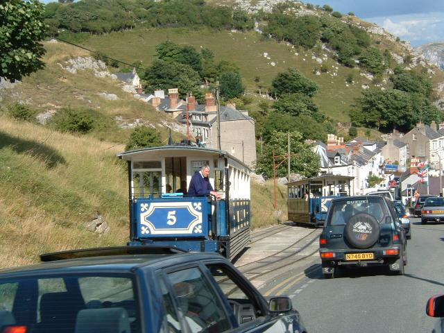 Great Orme Tramway, Llandudno; Lower section turnout, two cars passing.